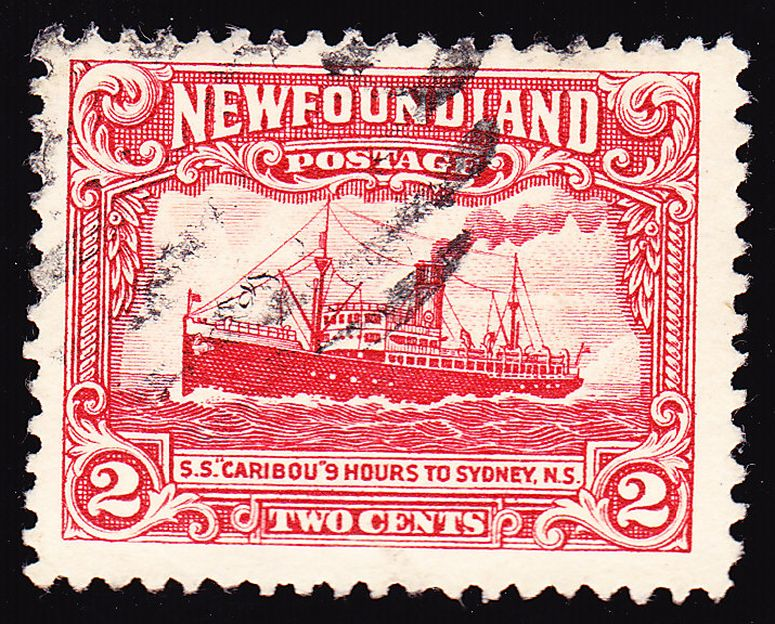 Newfoundland postage stamp